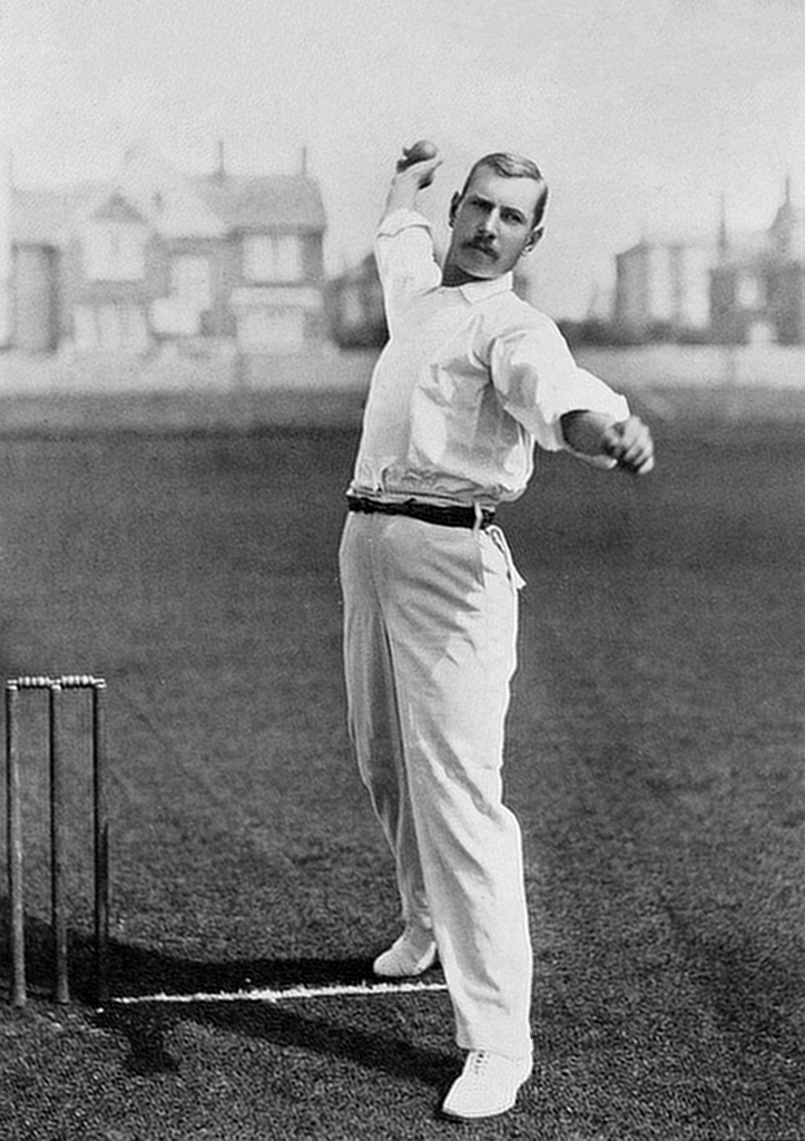 Scan of cricketer William Lockwood